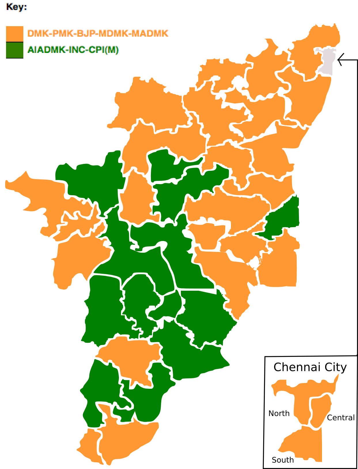 1999 Lok Sabha Election map for Tamil Nadu. Map is based on ECI drawn map. Results are based on ECI website.